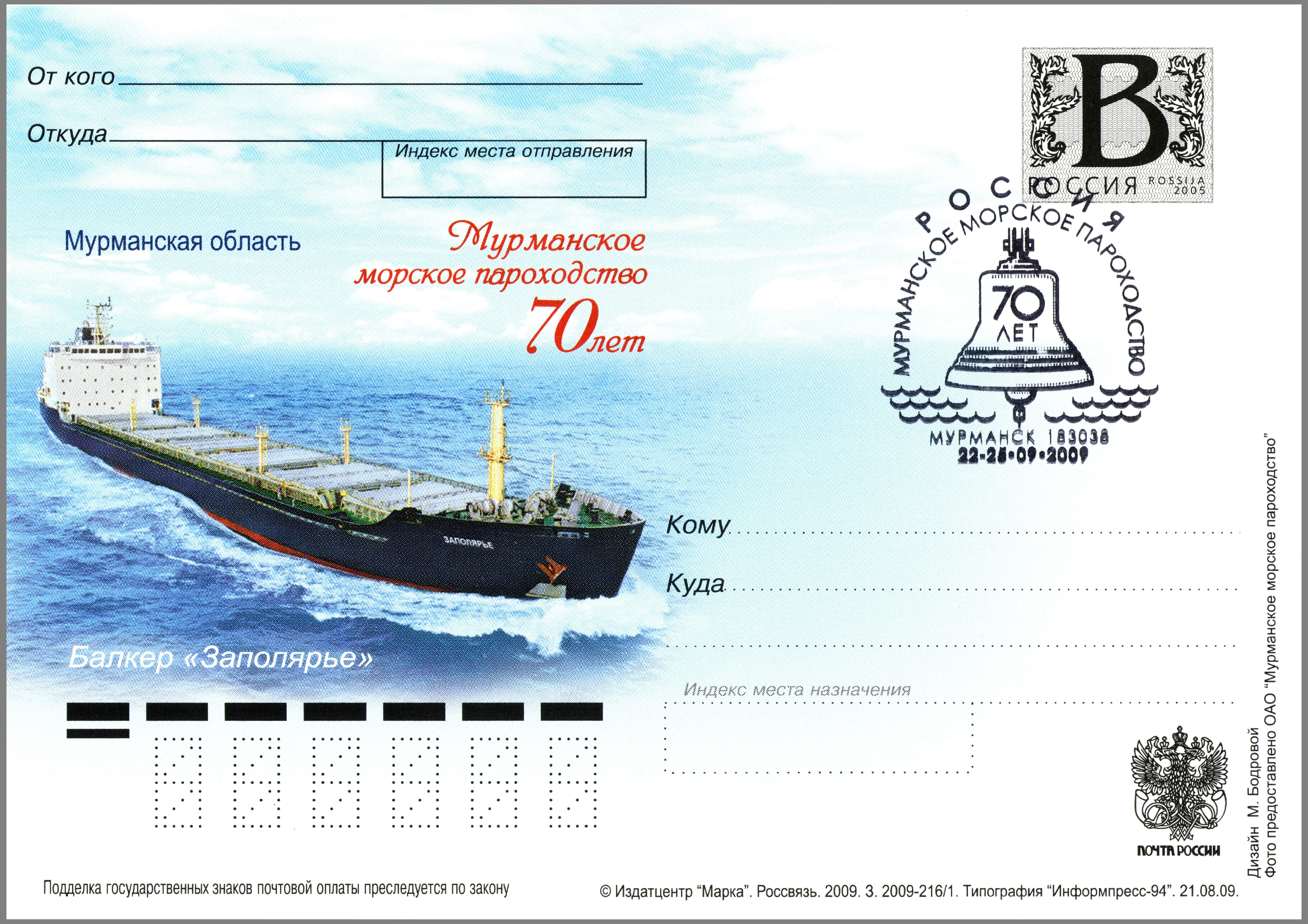 The bulker Zapolyarye (Murmansk Shipping Company, Russia). The postal card with imprinted definitive non-denominated stamp "Letter B", Russia, 2009, Catalogue of PTC Marka # 2009-216/1; pictorial cancellation "70th anniversary of Murmansk Shipping Company", Murmansk, 22—25 September, 2009.